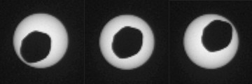 Annular eclipse of the sun by the Martian moon, Phobos, recorded by the Curiosity rover. This set of three images shows views three seconds apart as the larger of Mars' two moons, Phobos, passed directly in front of the sun as seen by NASA's Mars rover Curiosity. Curiosity photographed this annular, or ring, eclipse with the telephoto-lens camera of the rover's Mast Camera pair (right Mastcam) on Aug. 20, 2013, the 369th Martian day, or sol, of Curiosity's work on Mars. Curiosity paused during its drive that sol for a set of observations that the camera team carefully calculated to record this celestial event. The rover's observations of Phobos help researchers to make measurements of the moon's orbit even more precise. Because this eclipse occurred near mid-day at Curiosity's location on Mars, Phobos was nearly overhead, closer to the rover than it would have been earlier in the morning or later in the afternoon. This timing made Phobos' silhouette larger against the sun -- as close to a total eclipse of the sun as is possible from Mars.